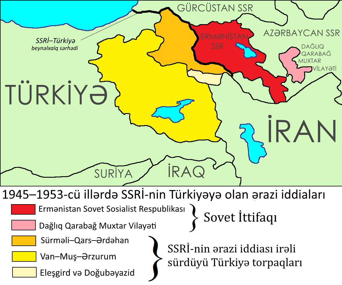 A map that shows the territorial claims of the Soviet Union to Turkey in 1945–1953, in Azerbaijani language.